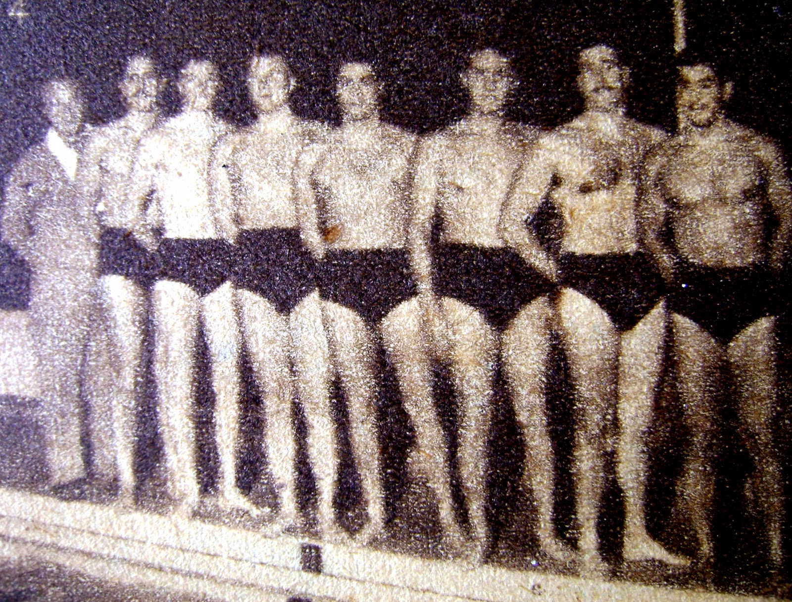 The team of River Plate in 1951 coached by the Hungarian Márton Homonnai. From left to right: M. Homonnay (coach), A. Paganini, J. Lucey, B. Grete, R. Paganini, R. Pretini.